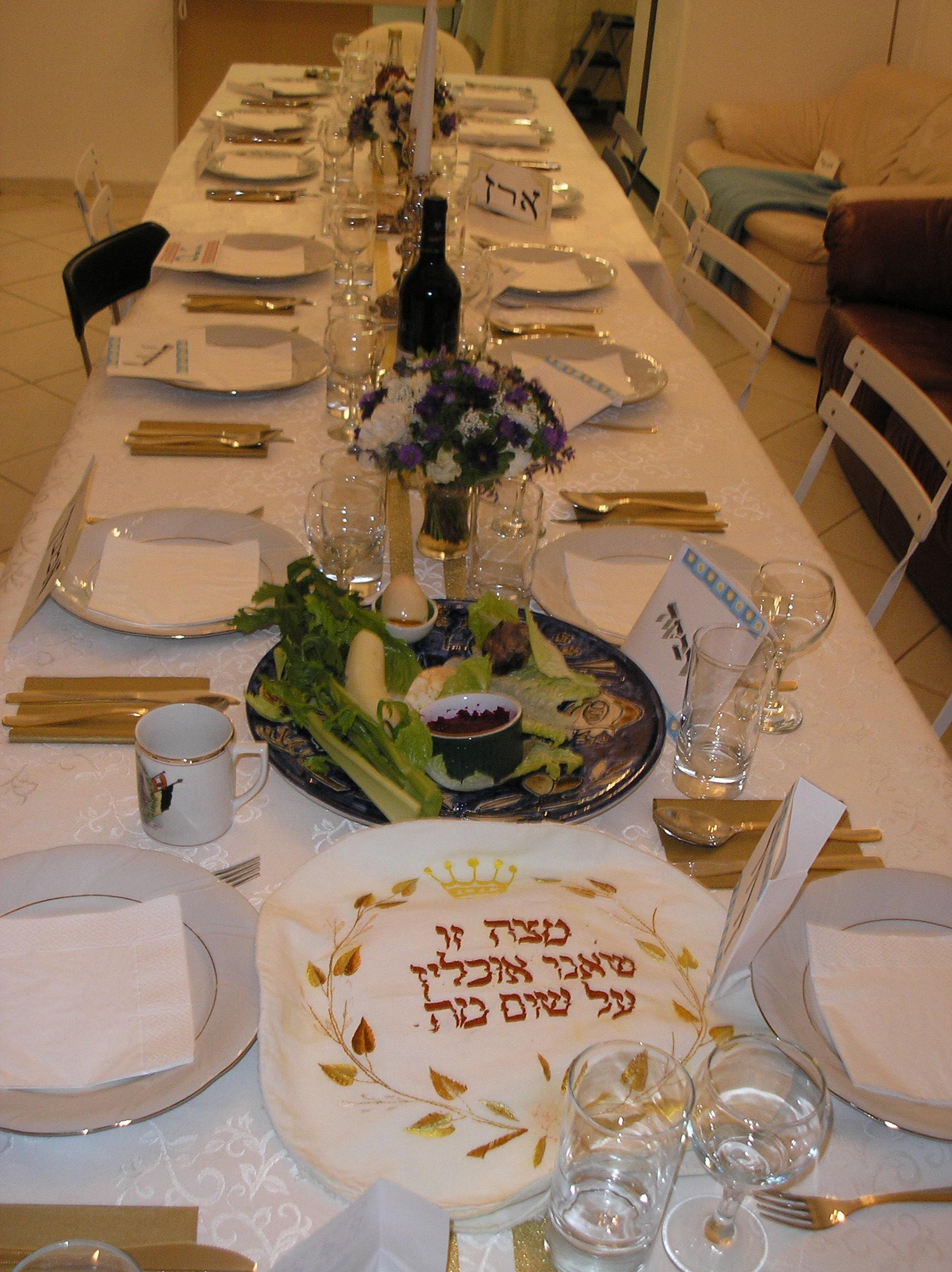 Passover Seder Table, Jewish holidays